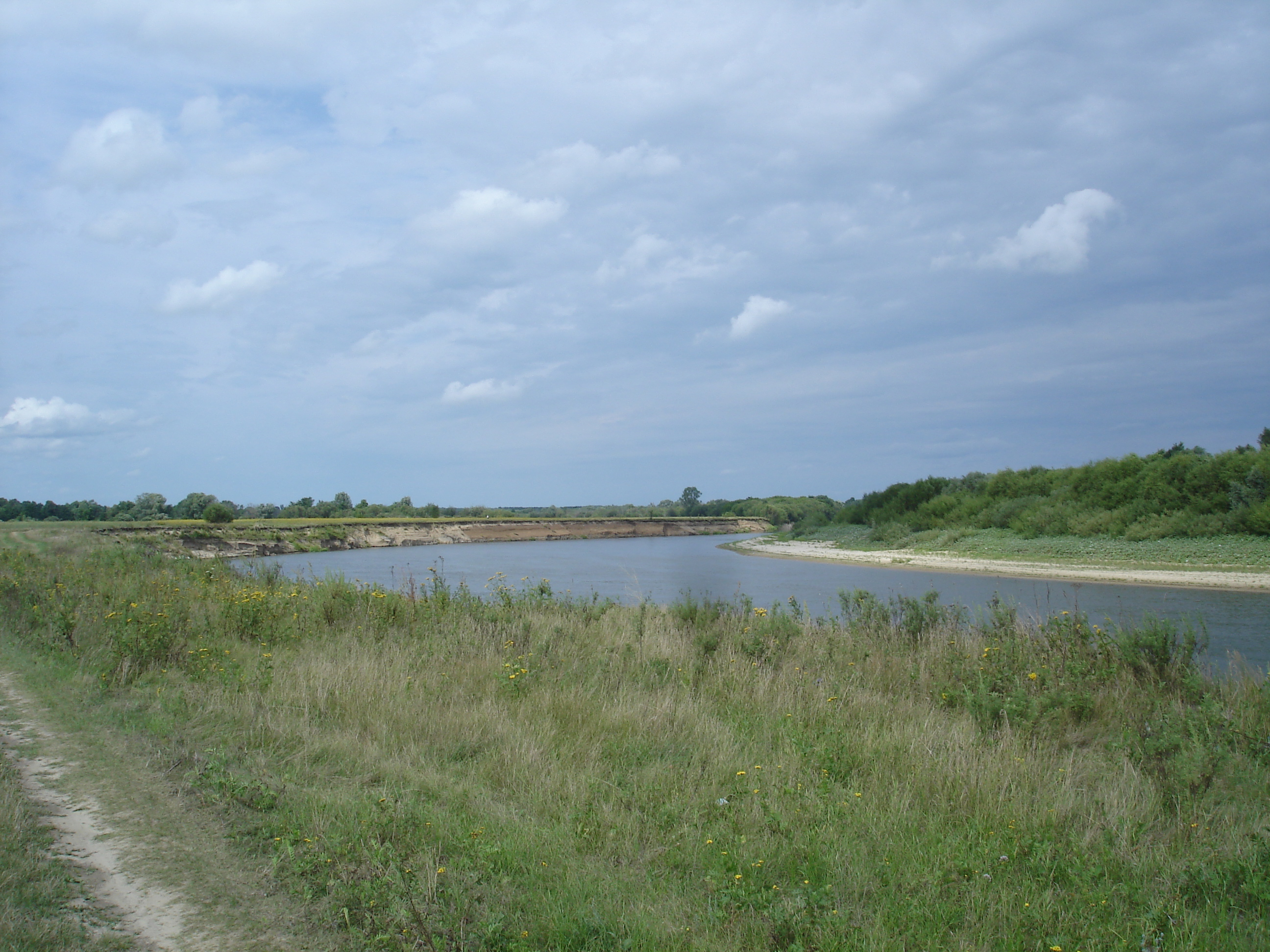 Moksha - near the village Savro-Mamyshevo.